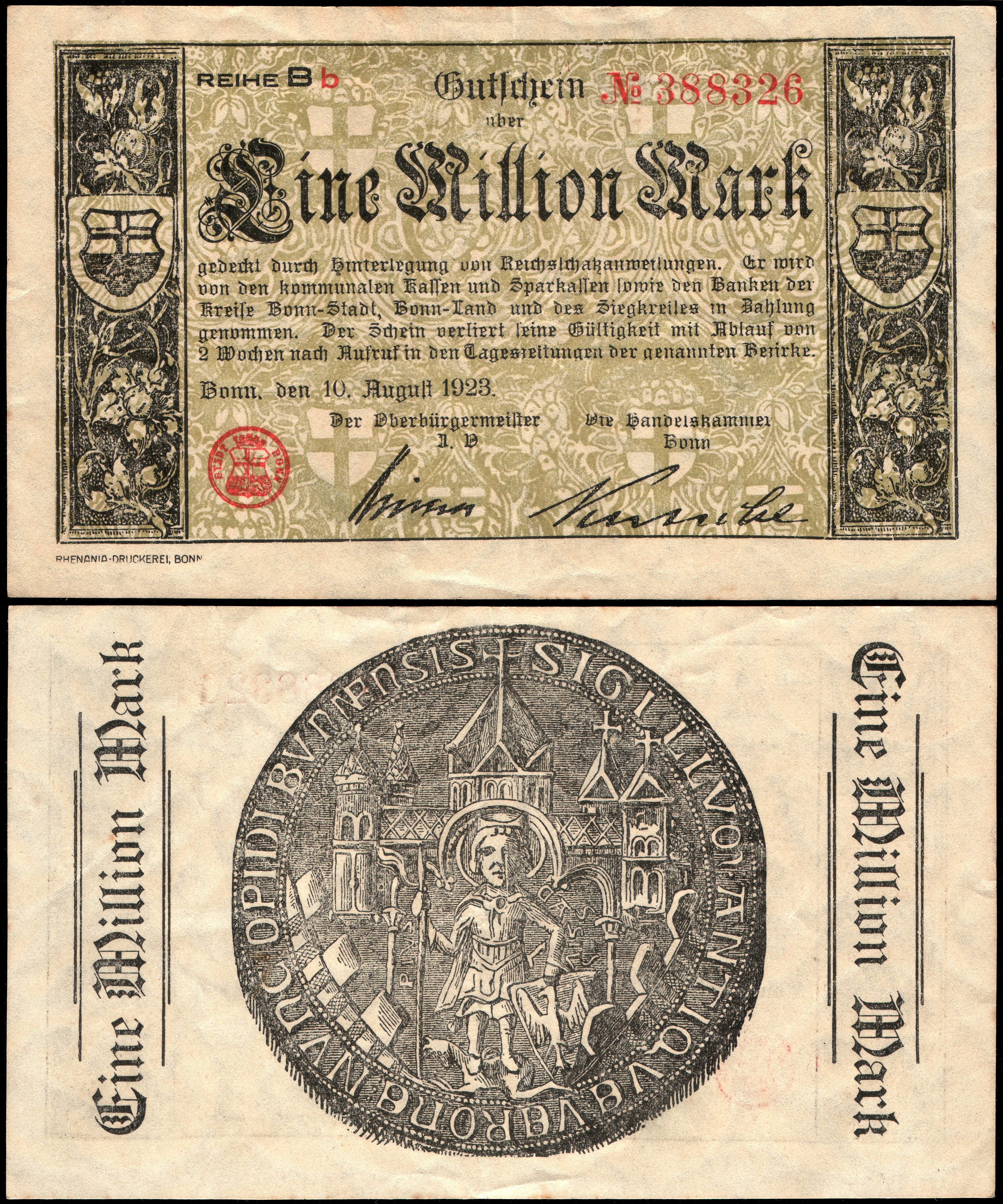 "Notgeld" banknote of Bonn, 1923: 1 million Mark, RV: Town seal of Bonn (14th century), size: 90 mm x 150 mm.